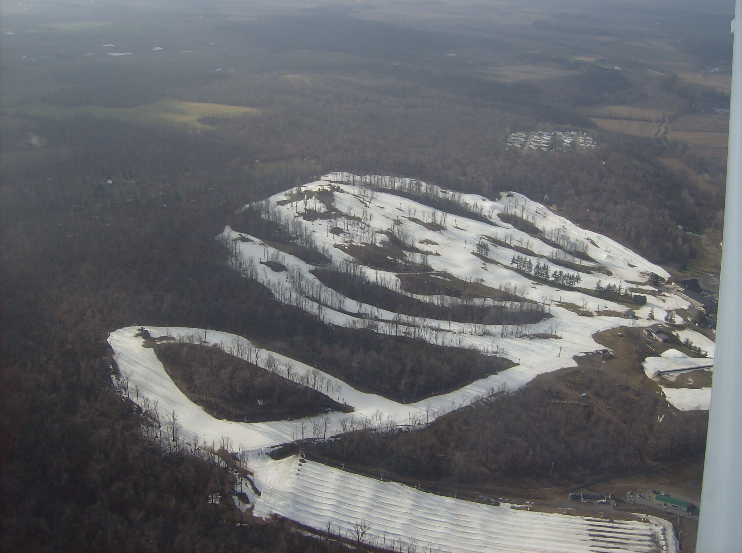 Aerial view of the small ski resort of Mad River Mountain and village of Valley Hi in southern Jefferson Township, Logan County, Ohio, United States, taken from a Diamond Eclipse light airplane. Picture taken from an altitude of 2,500 feet MSL at an bearing of approximately 218º.